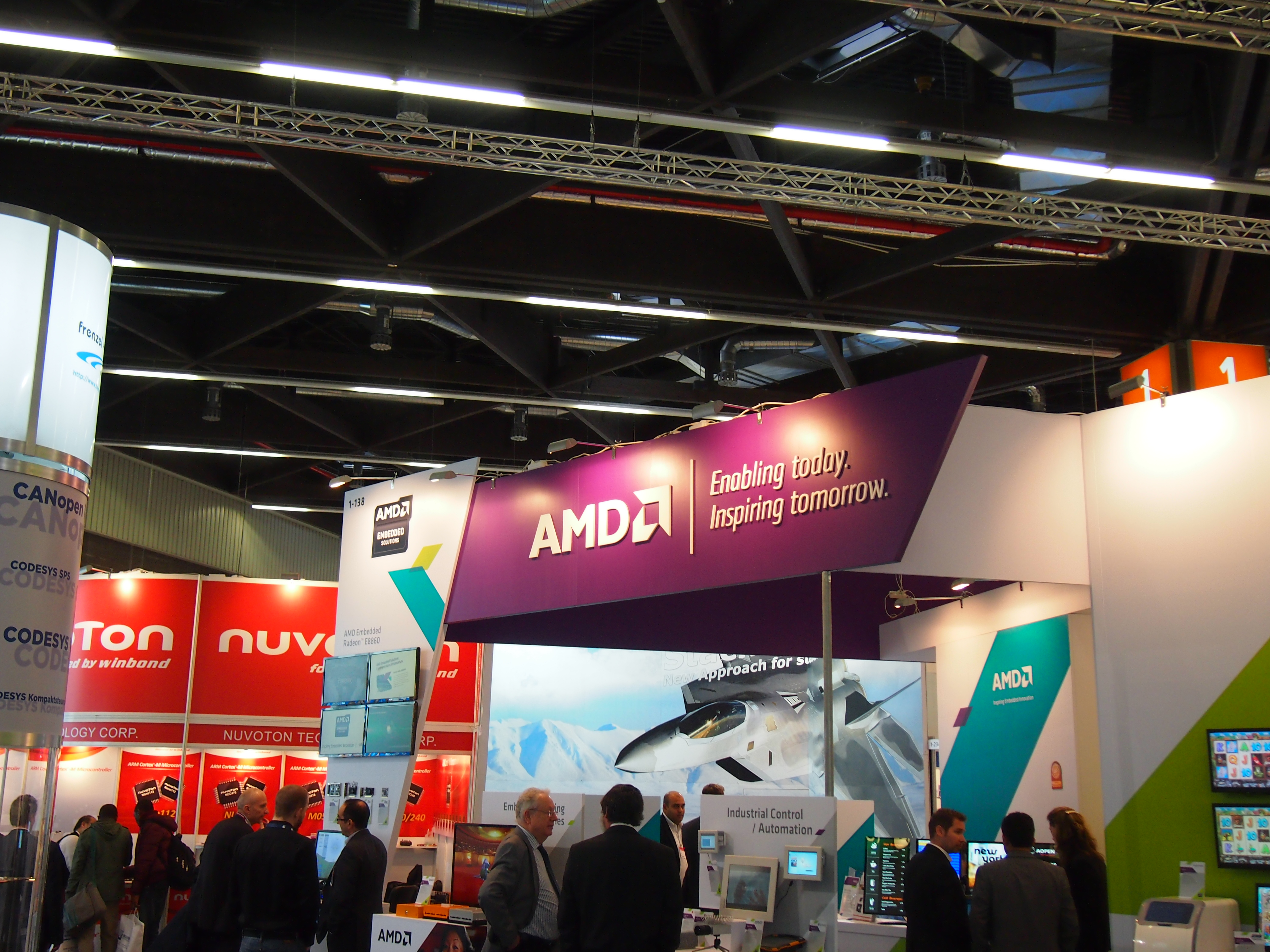 Embedded World 2014: AMD booth and Nuvoton Technology booth.